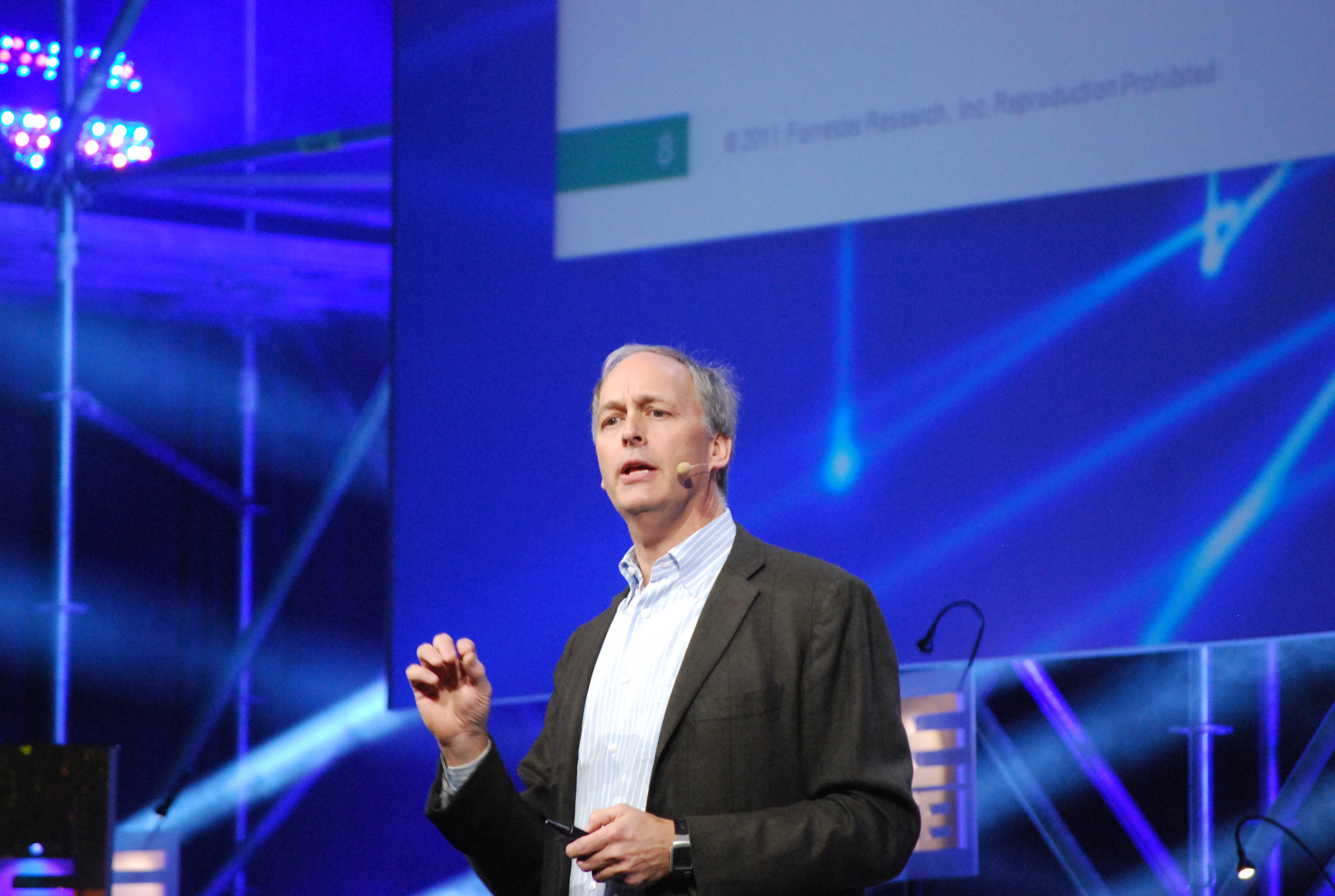 George Colony, Chairman & CEO Forrester